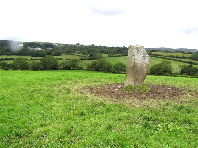 Standing Stone at Rockfield. The cattle have been rubbing themselves round the stone which is over two metres tall.